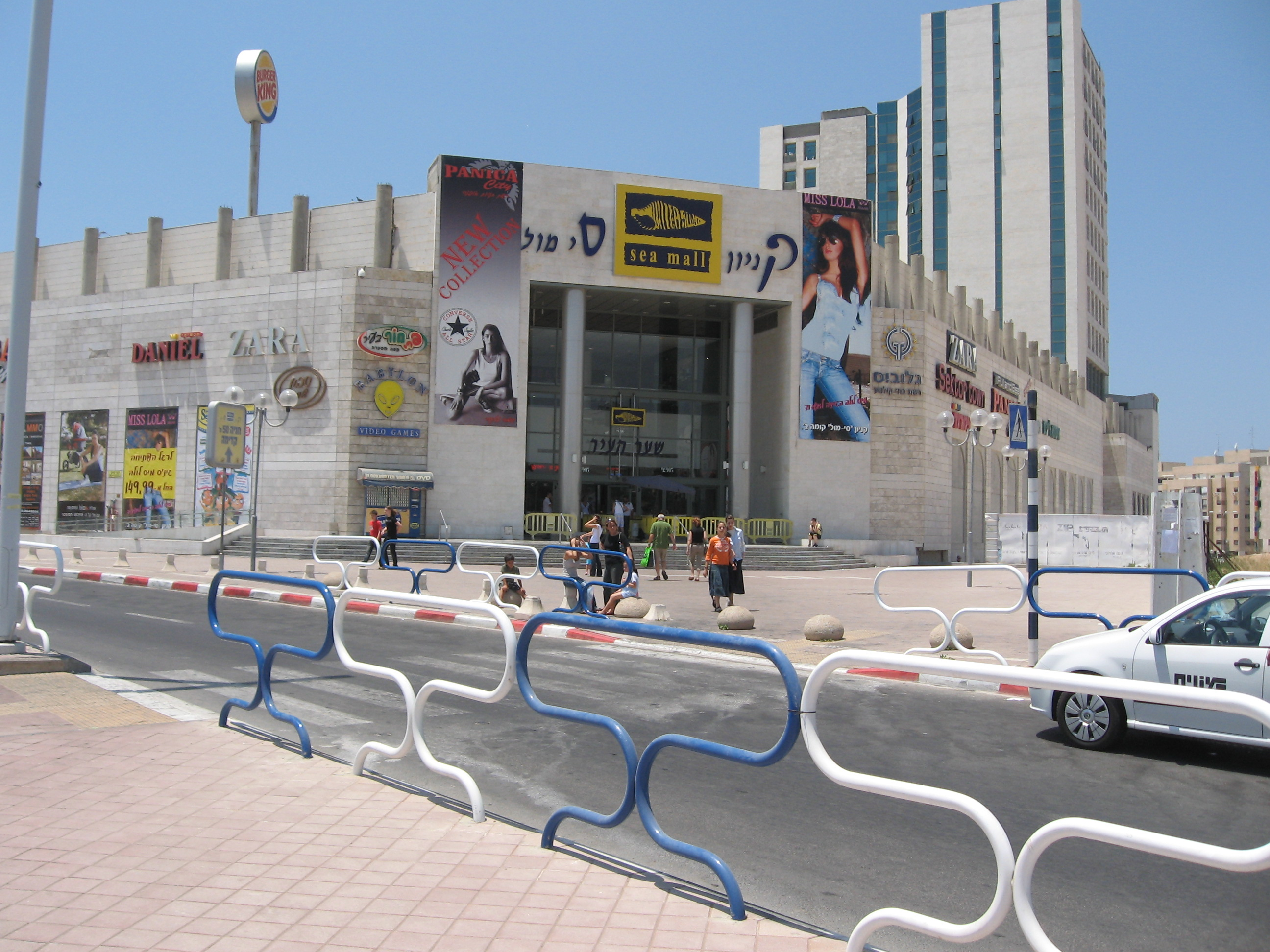 Sea mall main entrance.